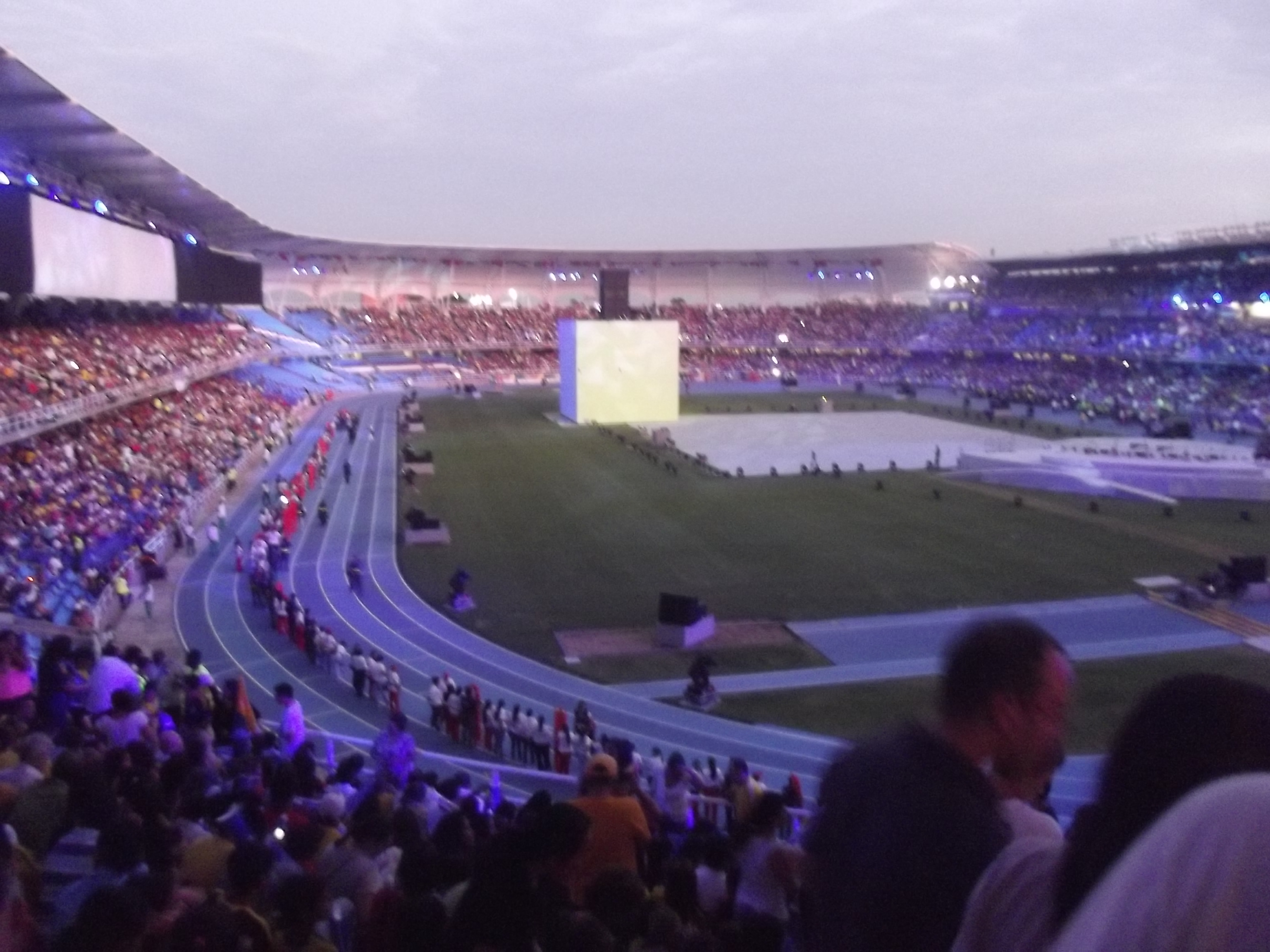 Inauguration of the World Games Cali 2013 Interlingua: Inauguration del Jocos mundial de 2013 in Santiago de Cali, Colombia